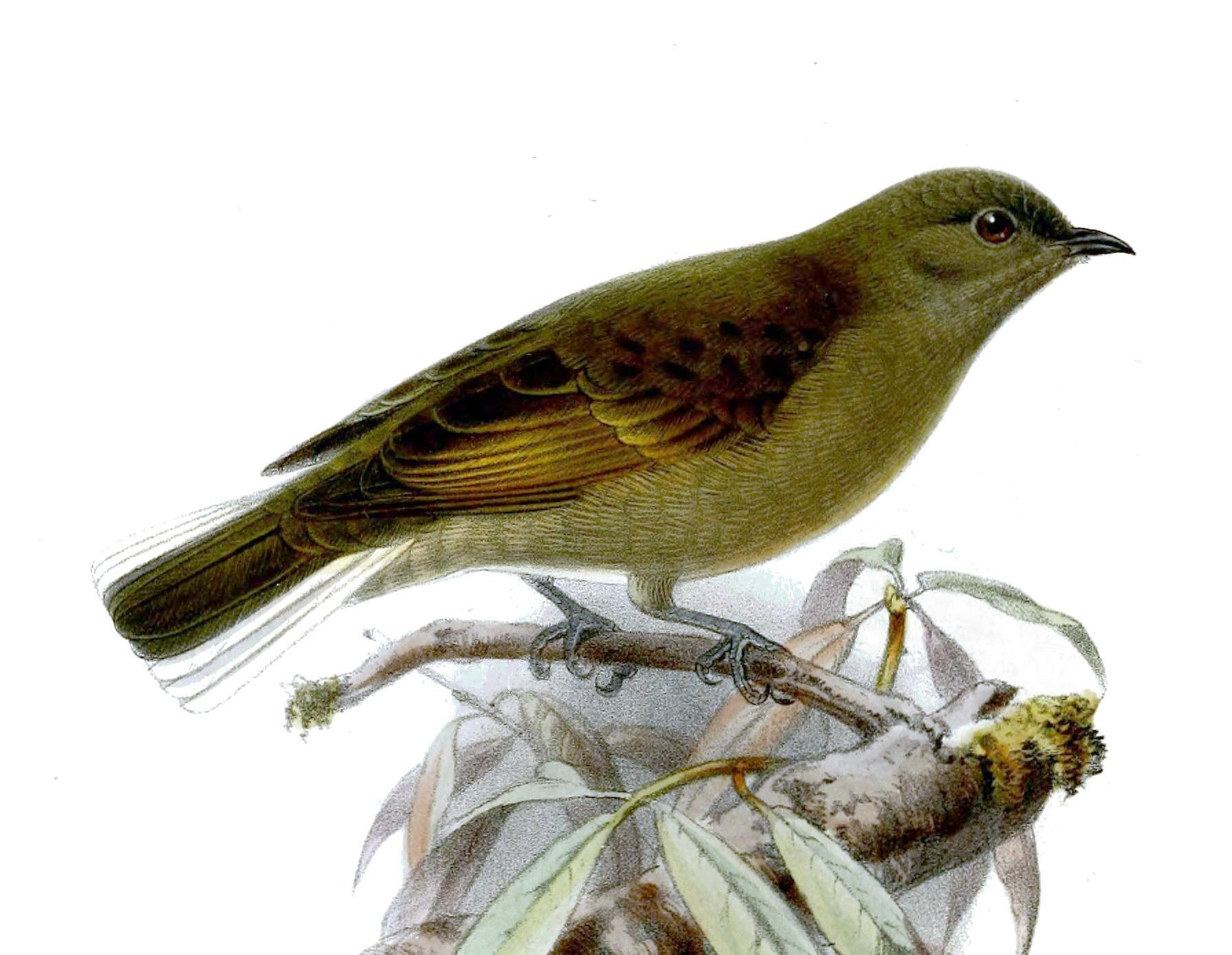 Western green-backed honeyguide, adult male